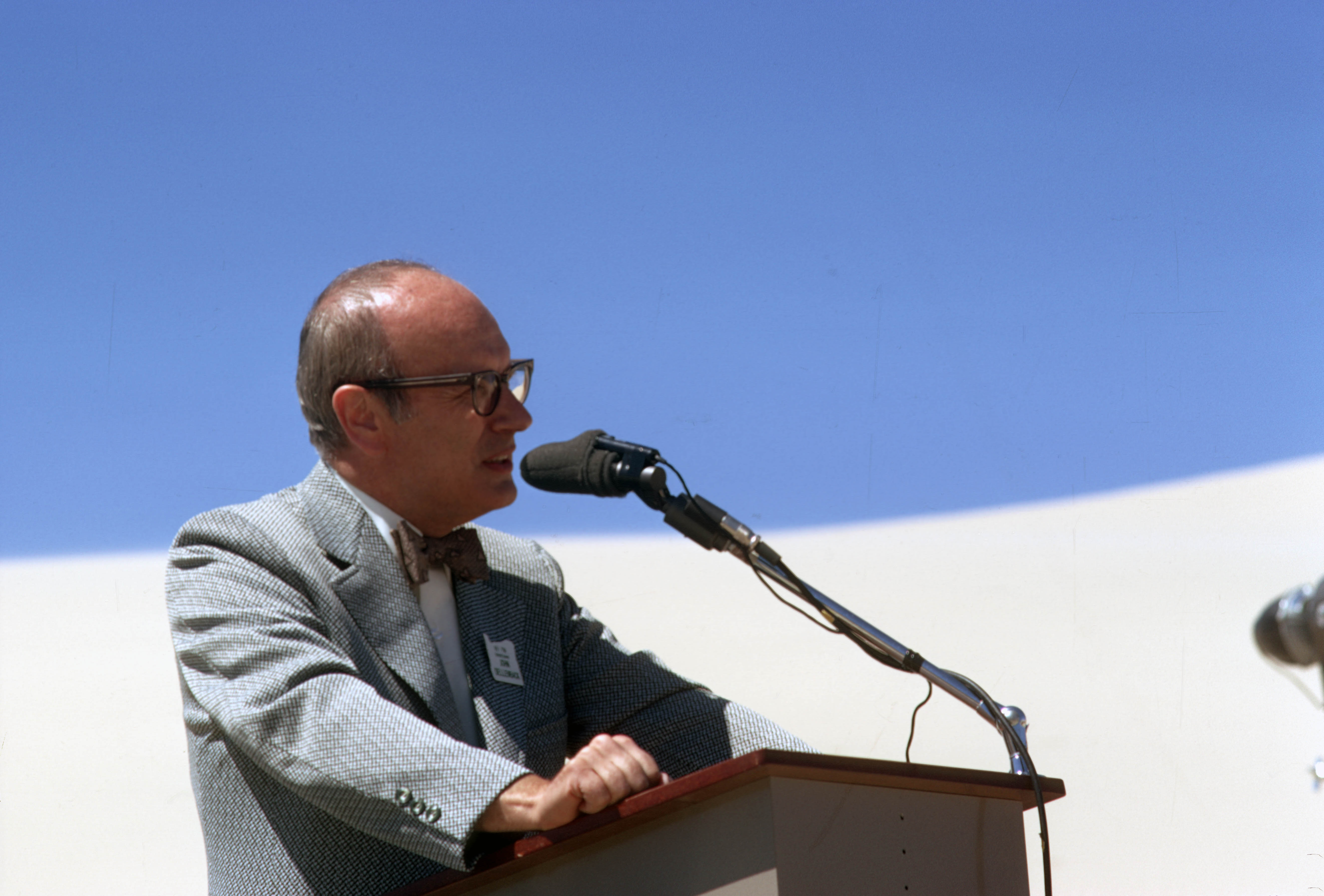 Oregon Dunes NRA,dedication day, Representative Dellenback, Siuslaw National Forest.jpg